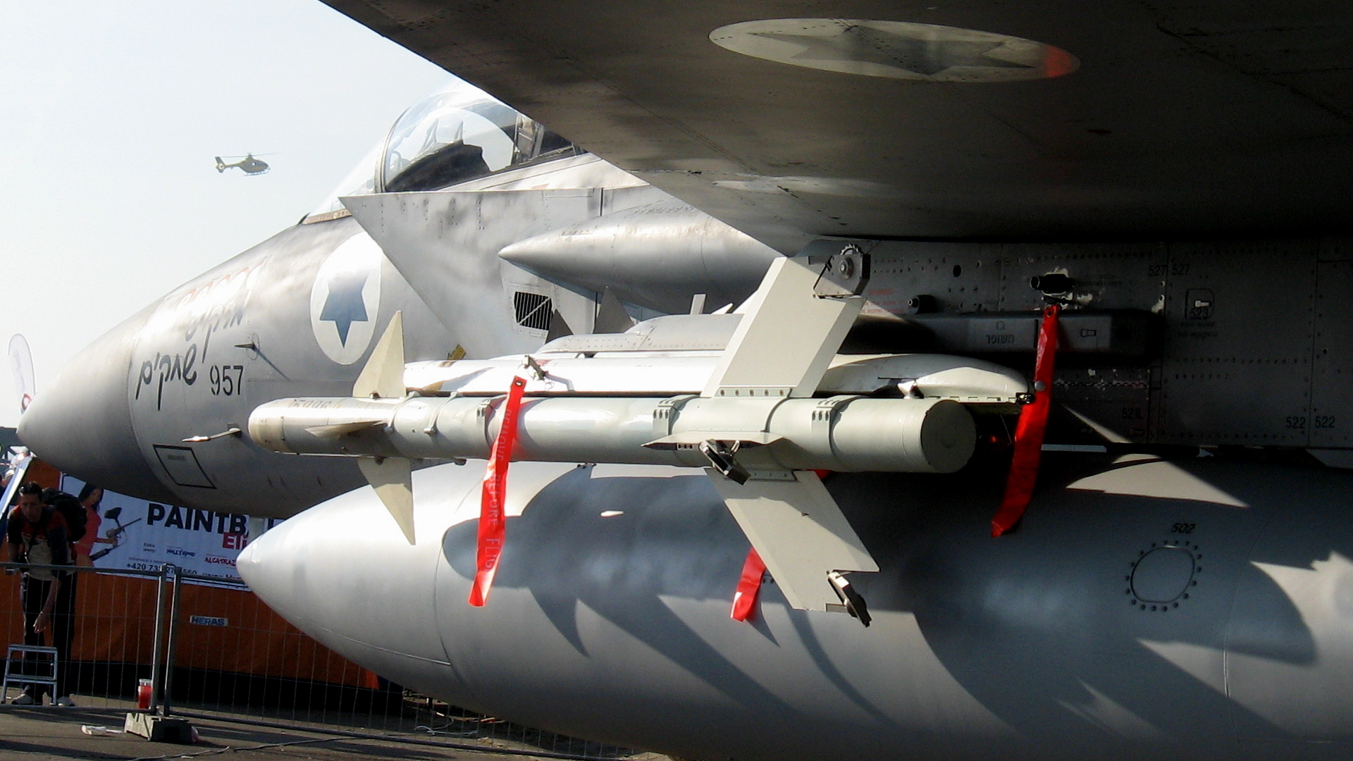 Rafael Python 3 air-to-air missile under the wing F-15D Baz '957'. Note that 2.5 out of the 4.5 aerial victories achieved with this aircraft were scored with the Python 3 missile